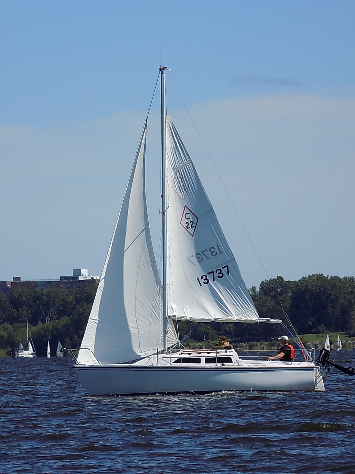 A Catalina 22 sailboat.